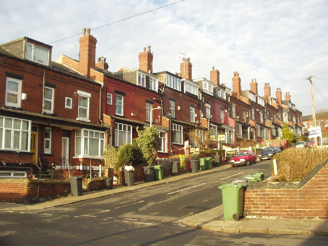 Back to Back terrace houses, Bankfield Road. More examples of back-to-back houses off Bankfield Road